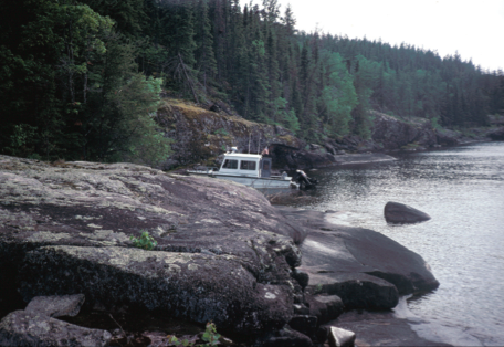 Exposed Precambrian rocks in Voyageurs National Park, Minnesota